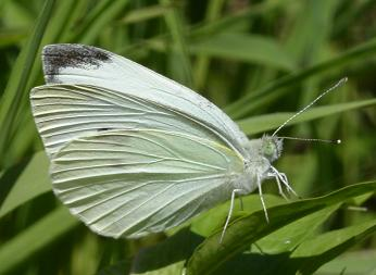 Small White (Pieris rapae) taken at Consumnes River Preserve near Galt, California.